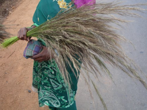 Black Dust Pollution and its impact on Biodiversity at Raigarh, Chhattisgarh